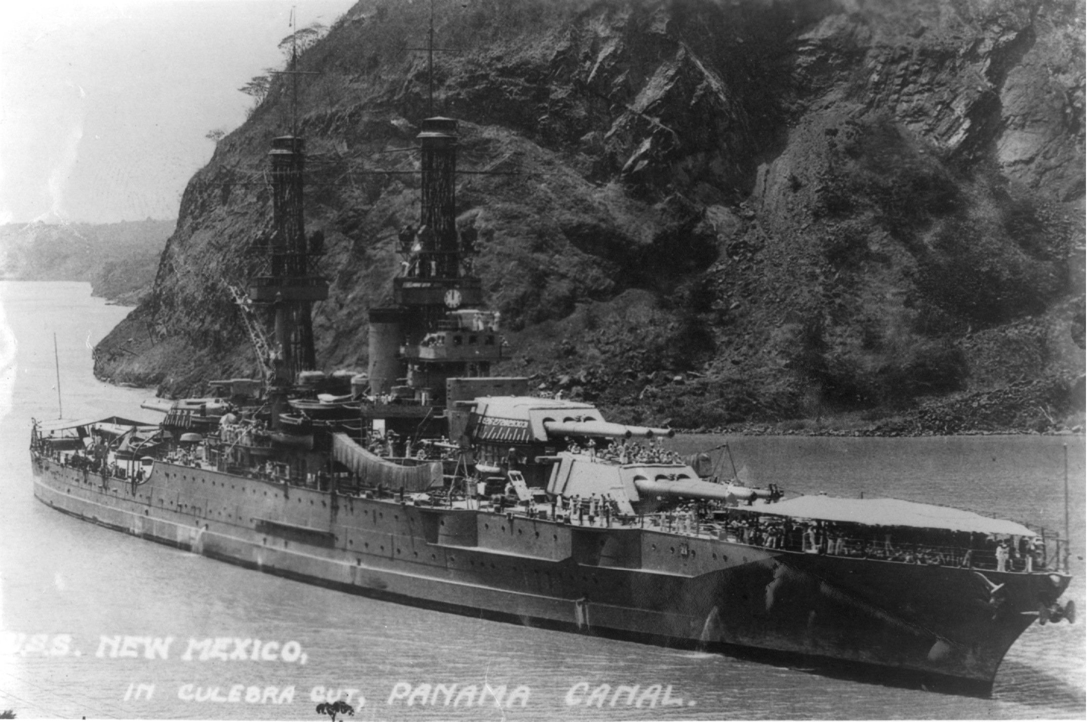 The U.S. Navy battleship USS New Mexico (BB-40) pictured in the Culebra Cut, Panama Canal. Note the awning providing shade on the bow and the hammocks hanging out to dry. The date given is 1935 or 1936, although it was taken before her 1931-1933 modernization.